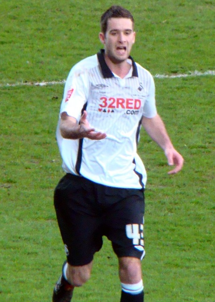 03/04/10 Cardiff V Swansea, Chamionship, Cardiff City Stadium, Cardiff, Wales